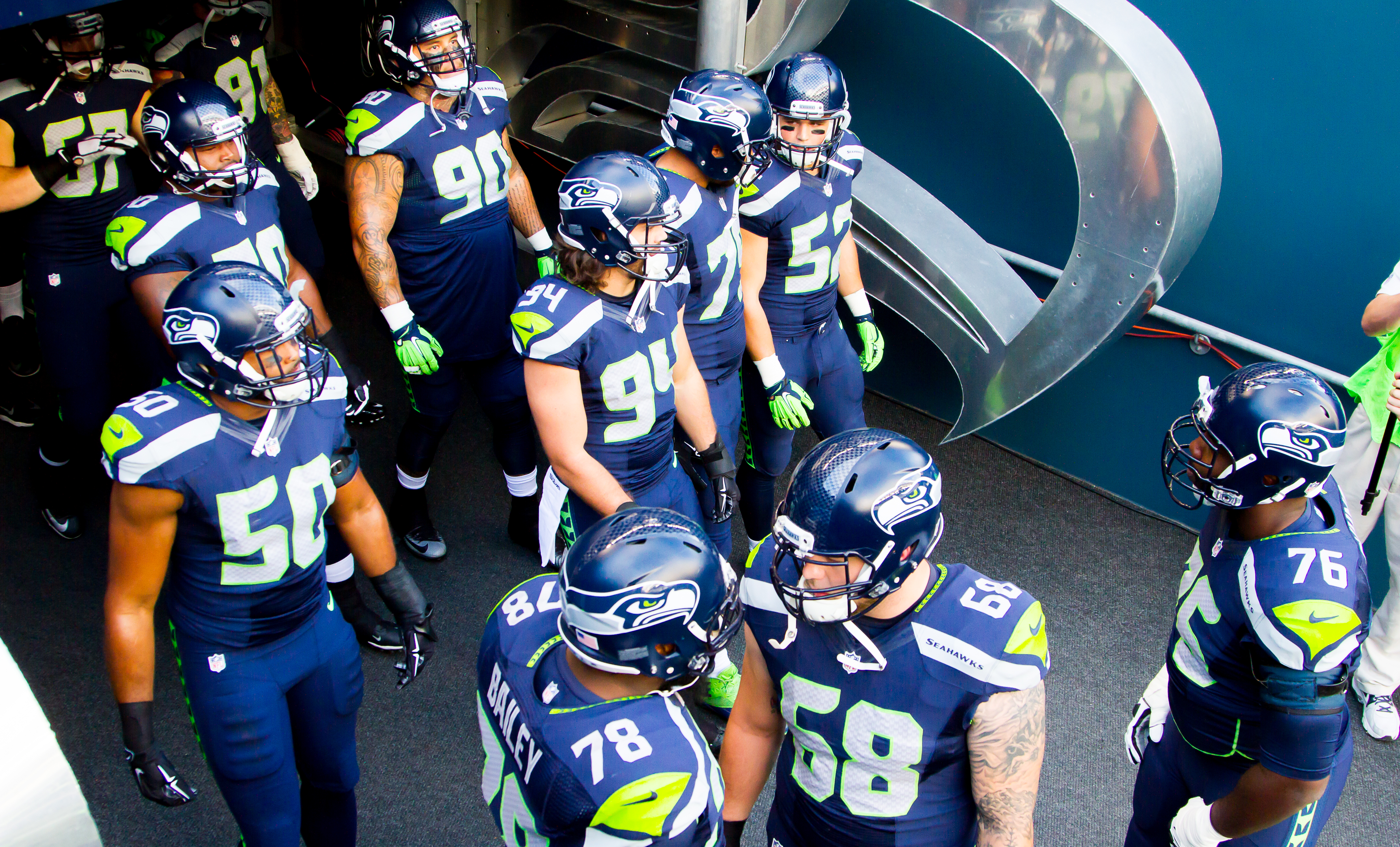 Raiders at Seahawks